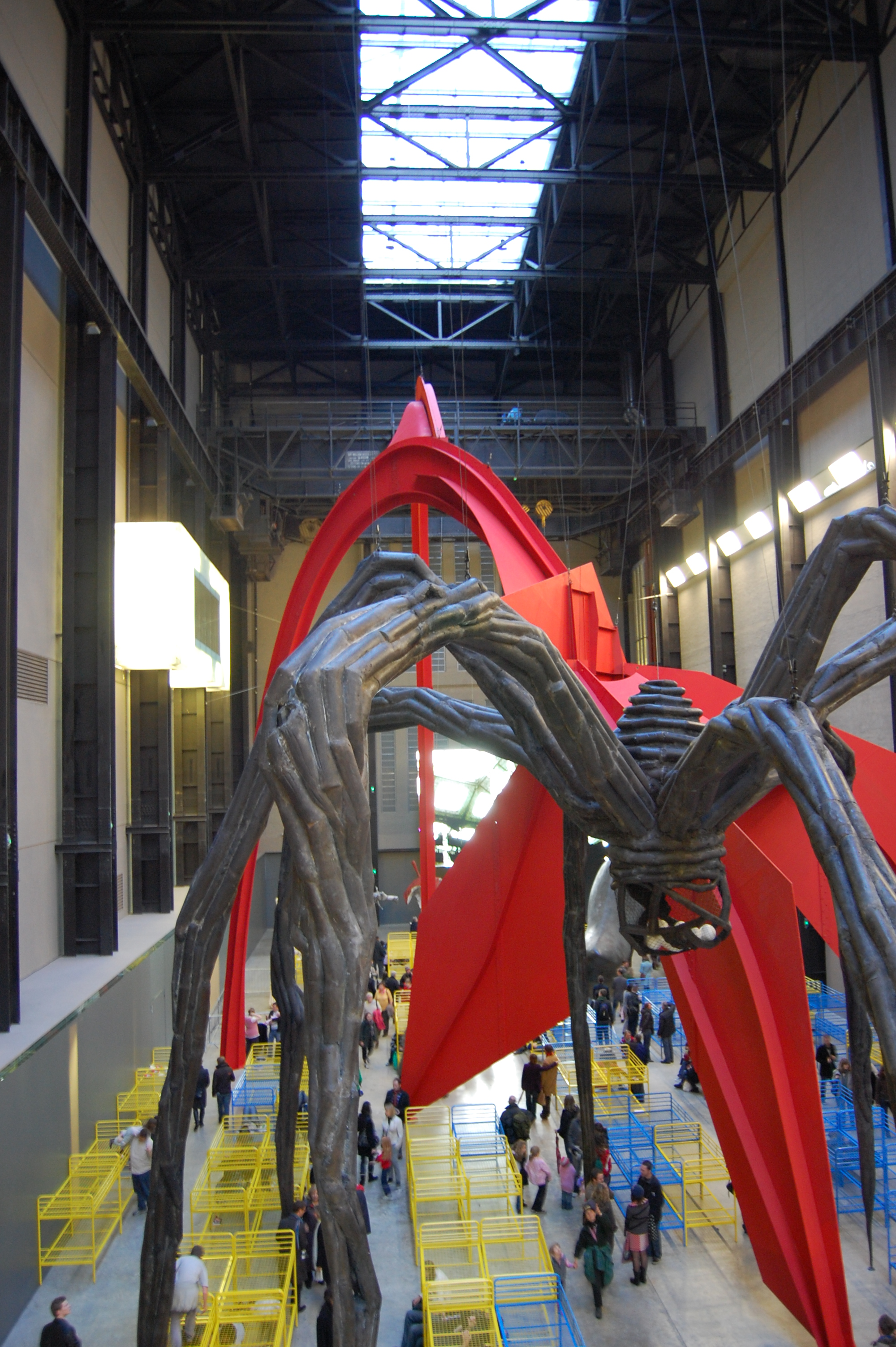 Turbine Hall of the Tate Modern